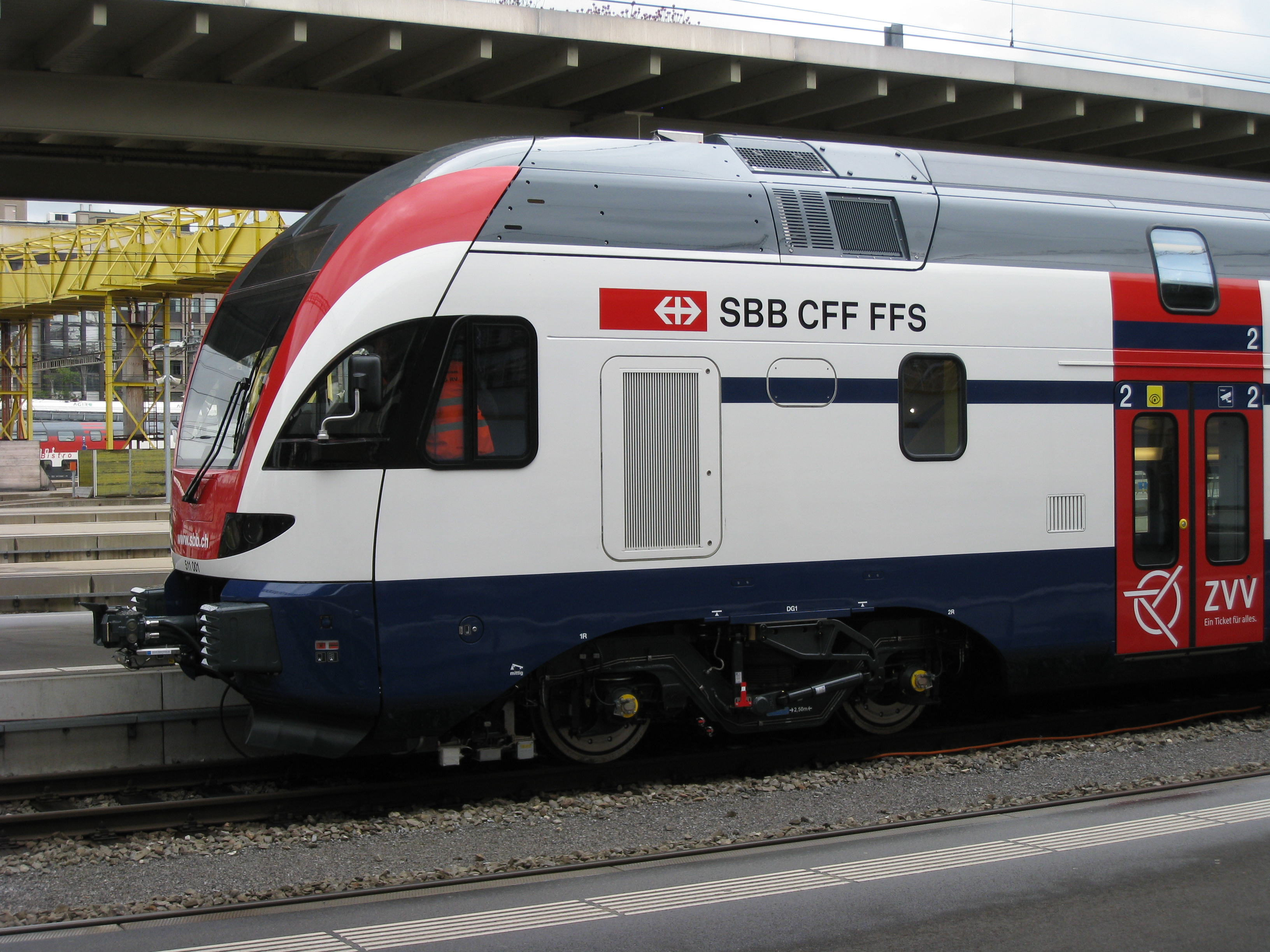 Powered end-coach of the RABe 511 EMU (Stadler KISS).